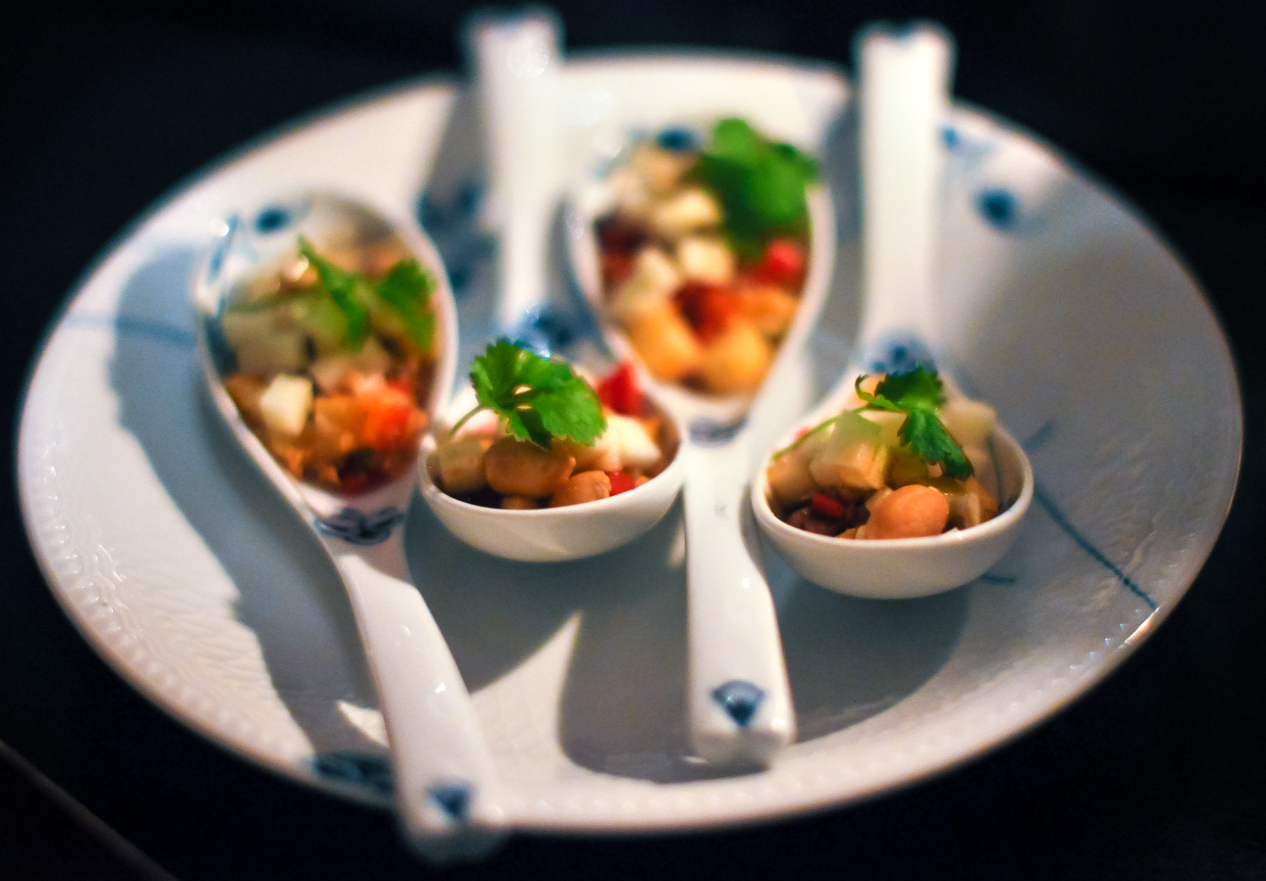 Restaurant Kiin Kiin: Ingefær, peanuts og chili (Ginger, peanuts and chili) Original file on Wikimedia Commons at File:Restaurant Kiin Kiin Ingefær, peanuts og chili (6200203175).jpg